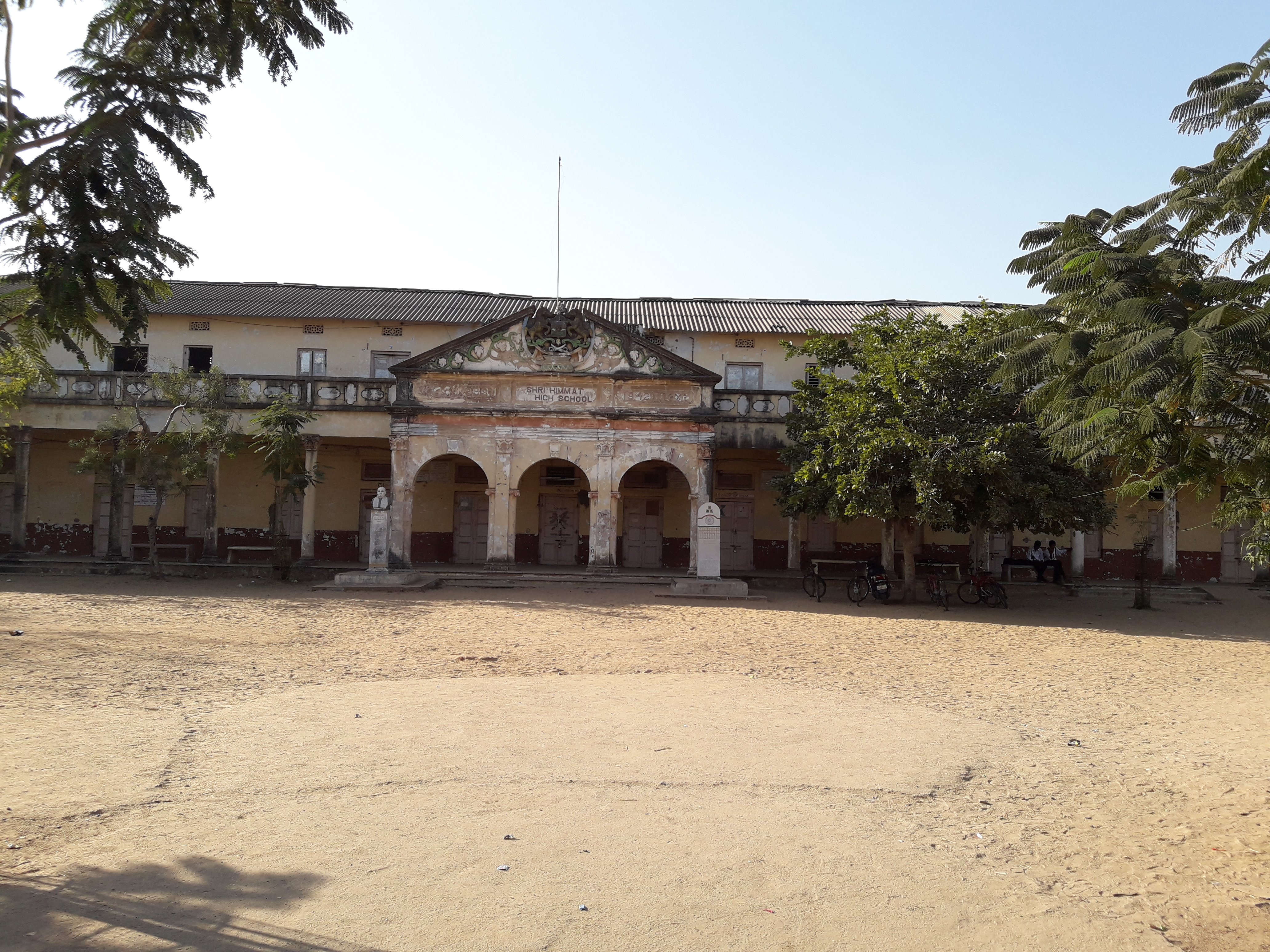 Old building of Shri Himmat High School located at Station Road, Himmatnagar, Gujarat, India.